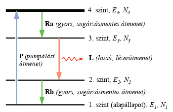 Population inversion 4-level diagram